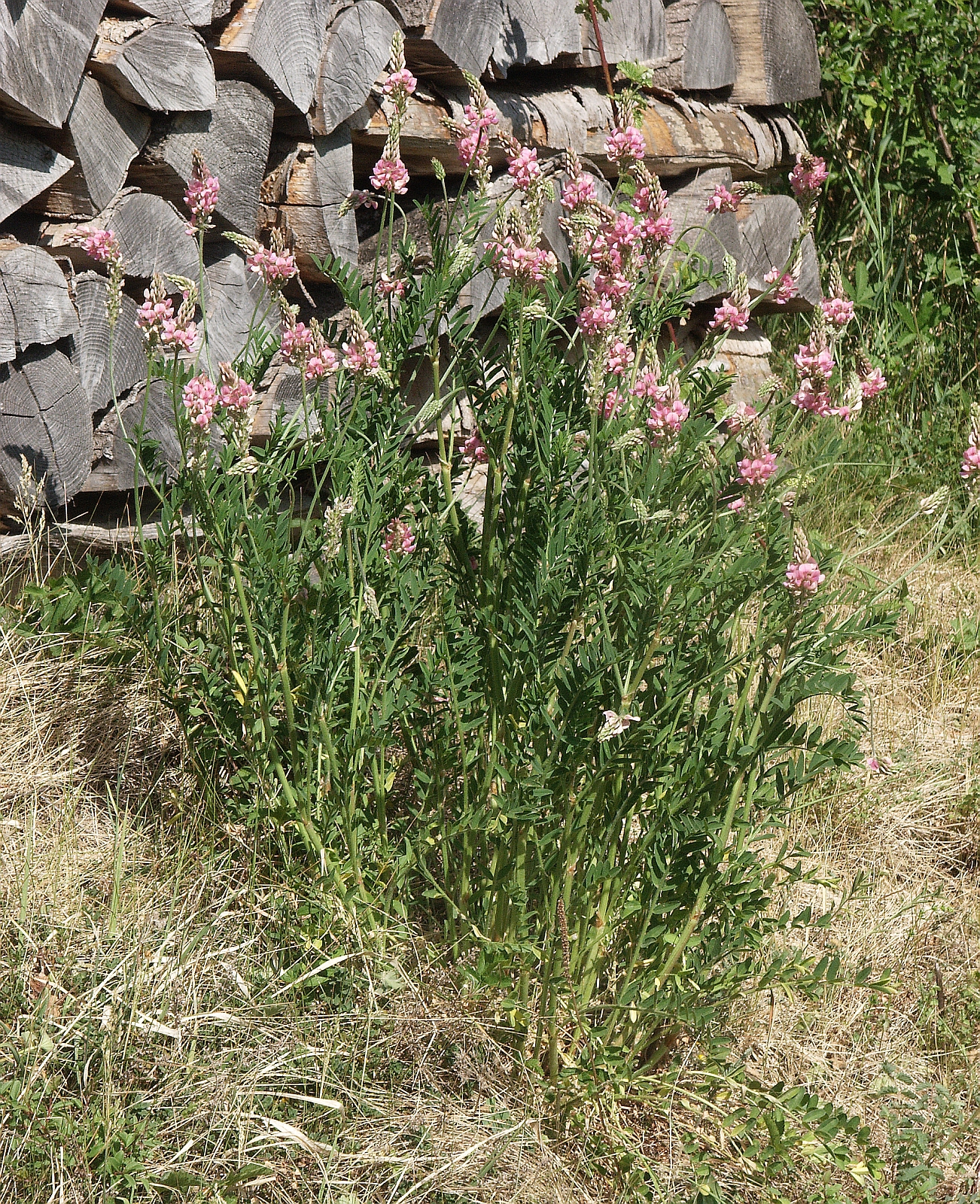 Onobrychis viciifolia, Tauberland, Germany